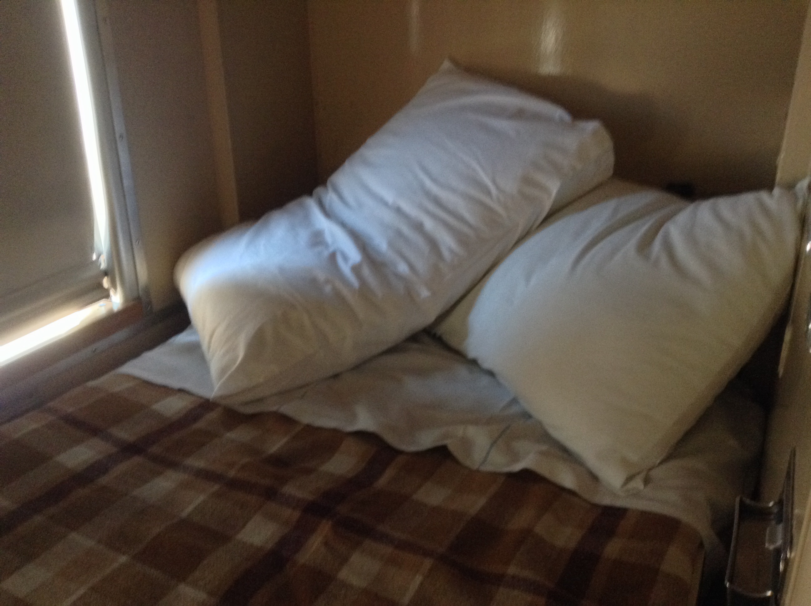 A bed in the vine lander.